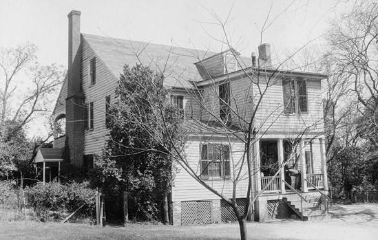 Harper House, Wrightsboro Road, Augusta vicinity (Richmond County, Georgia) Cropped This file comes from the Historic American Buildings Survey (HABS), Historic American Engineering Record (HAER) or Historic American Landscapes Survey (HALS). These are programs of the National Park Service established for the purpose of documenting historic places. Records consist of measured drawings, archival photographs, and written reports. When reusing please credit: Library of Congress, Prints & Photographs Division, GA,123-AUG.V,1-2 This tag does not indicate the copyright status of the attached work. A normal copyright tag is still required. See Commons:Licensing for more information. English | +/− This work is in the public domain in the United States because it is a work prepared by an officer or employee of the United States Government as part of that person’s official duties under the terms of Title 17, Chapter 1, Section 105 of the US Code. See Copyright. Note: This only applies to original works of the Federal Government and not to the work of any individual U.S. state, territory, commonwealth, county, municipality, or any other subdivision. This template also does not apply to postage stamp designs published by the United States Postal Service since 1978. (See § 313.6(C)(1) of Compendium of U.S. Copyright Office Practices). It also does not apply to certain US coins; see The US Mint Terms of Use. This file has been identified as being free of known restrictions under copyright law, including all related and neighboring rights. Object location33° 28′ 00″ N, 82° 00′ 49″ W